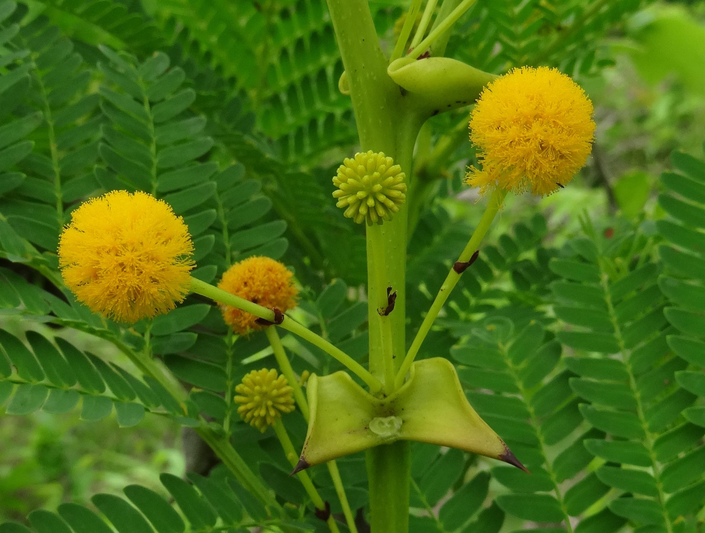 Close to Pemba Bay in Northern Mozambique.